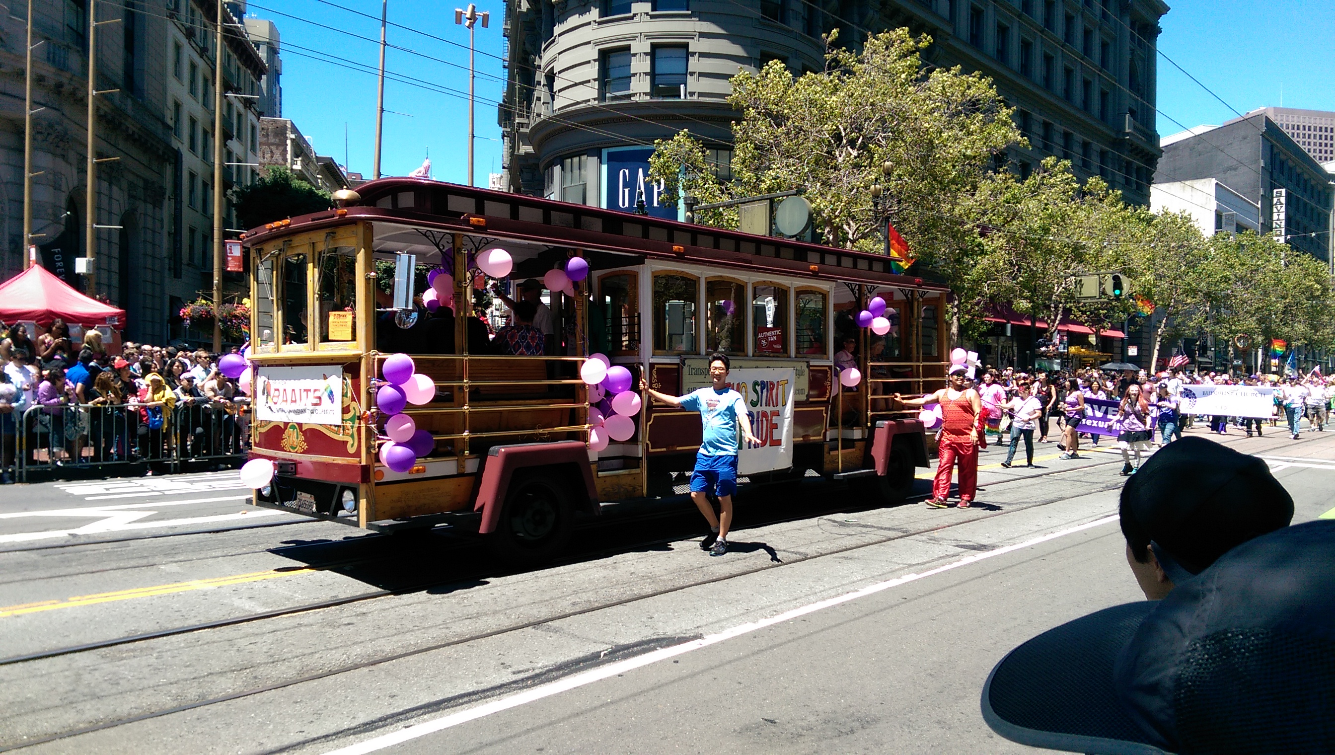 Two-Spirited pride trolley at San Francisco Pride 2014